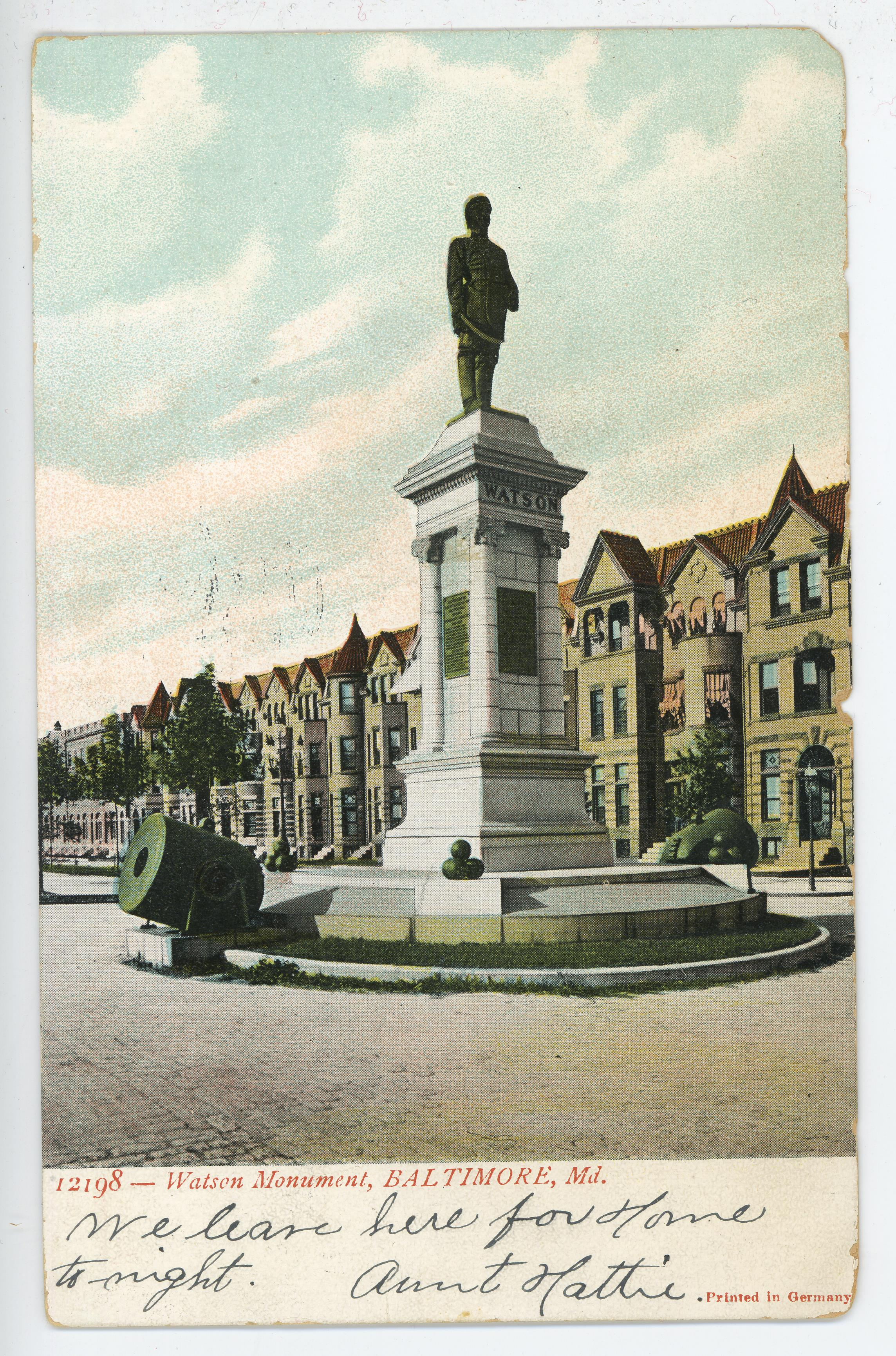 Postcard of the Watson Monument in Baltiomore, Maryland, circa, 1901-1907. Postmark: September 17, 1907; Postcard number: 12198.